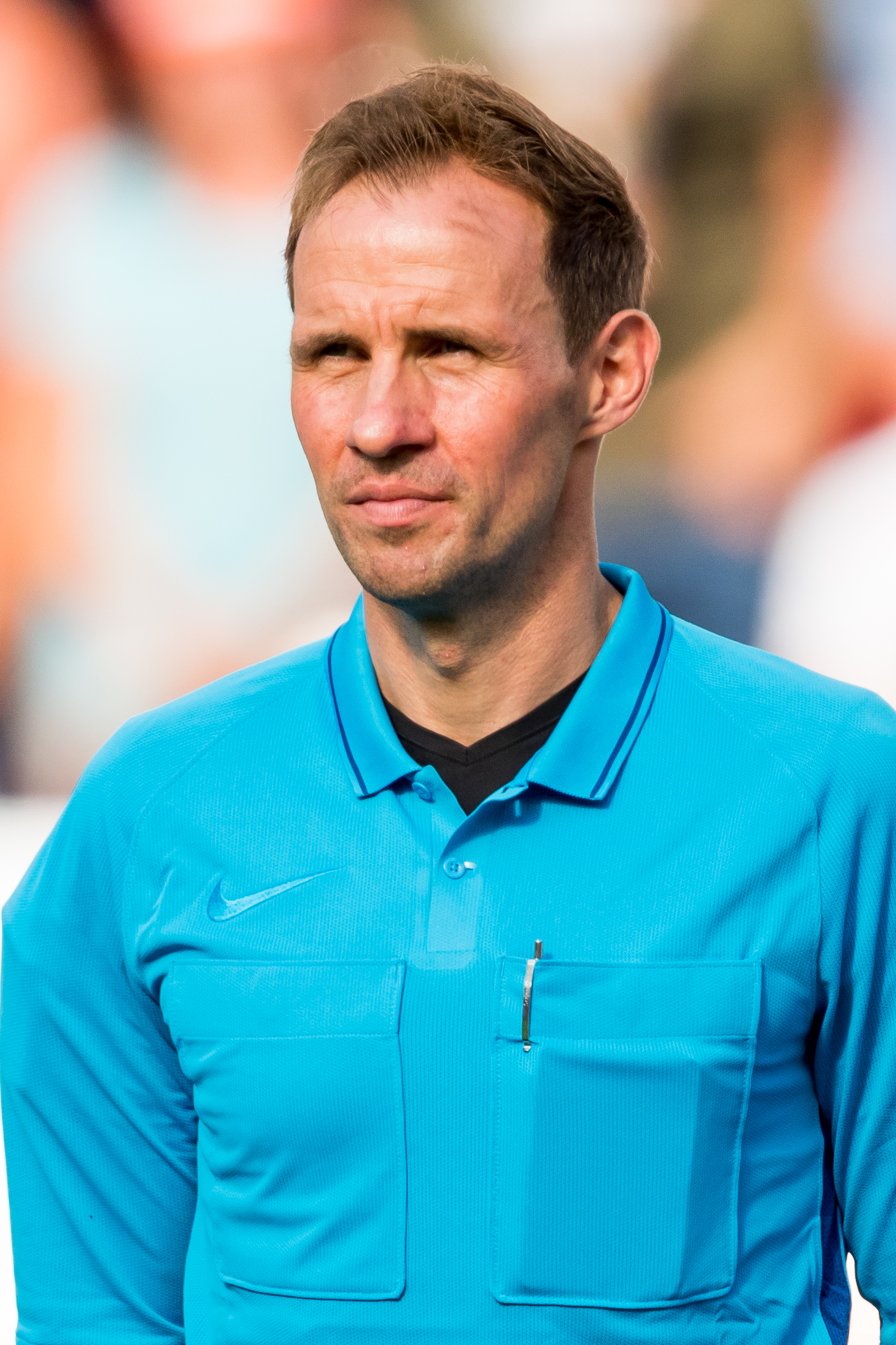 Sascha Stegemann during Champions for Charity at BayArena, Leverkusen, Nordrhein-Westfalen, Germany on 2019-07-21, Photo: Sven Mandel